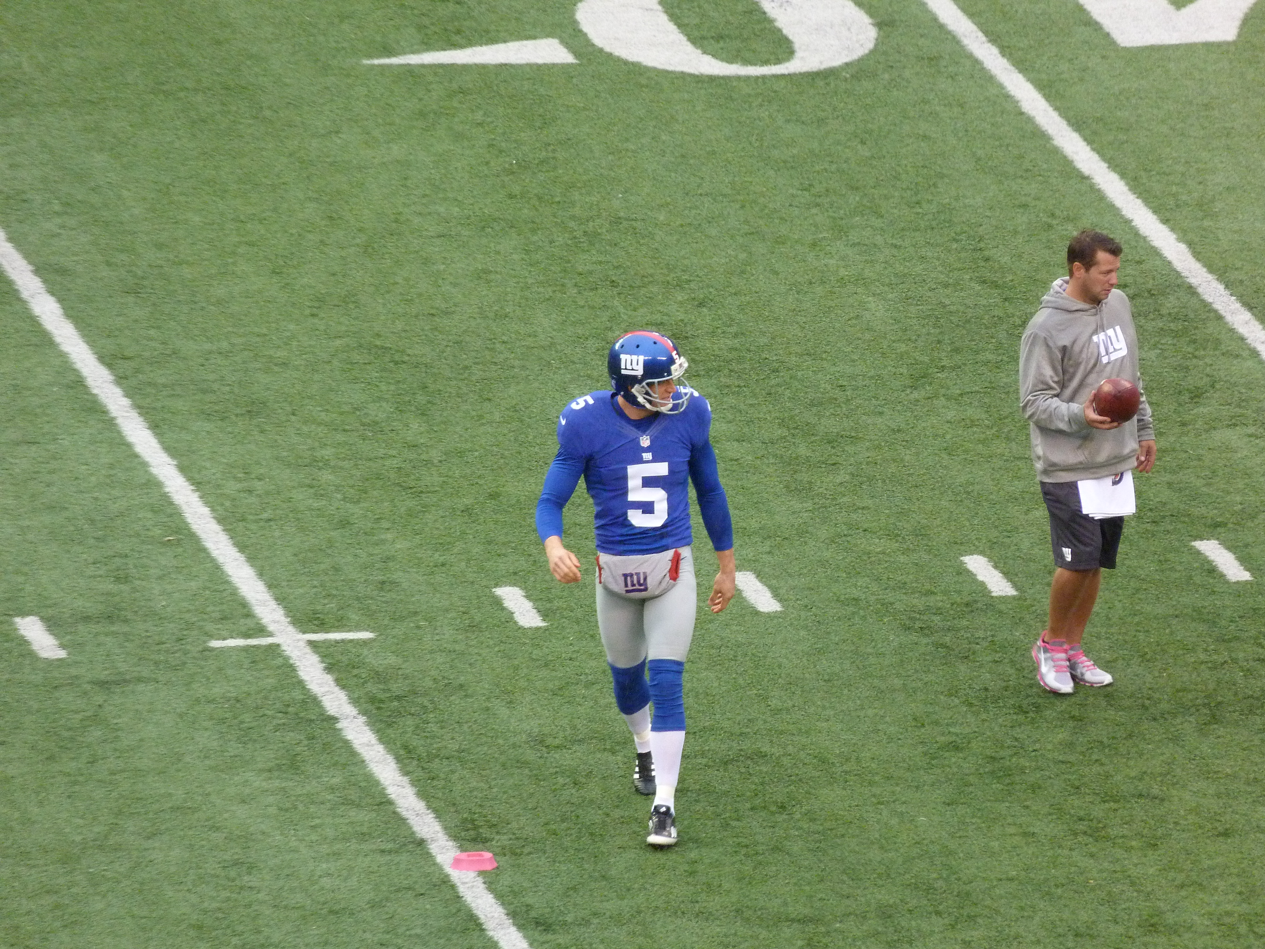 Steve Weatherford with the Giants